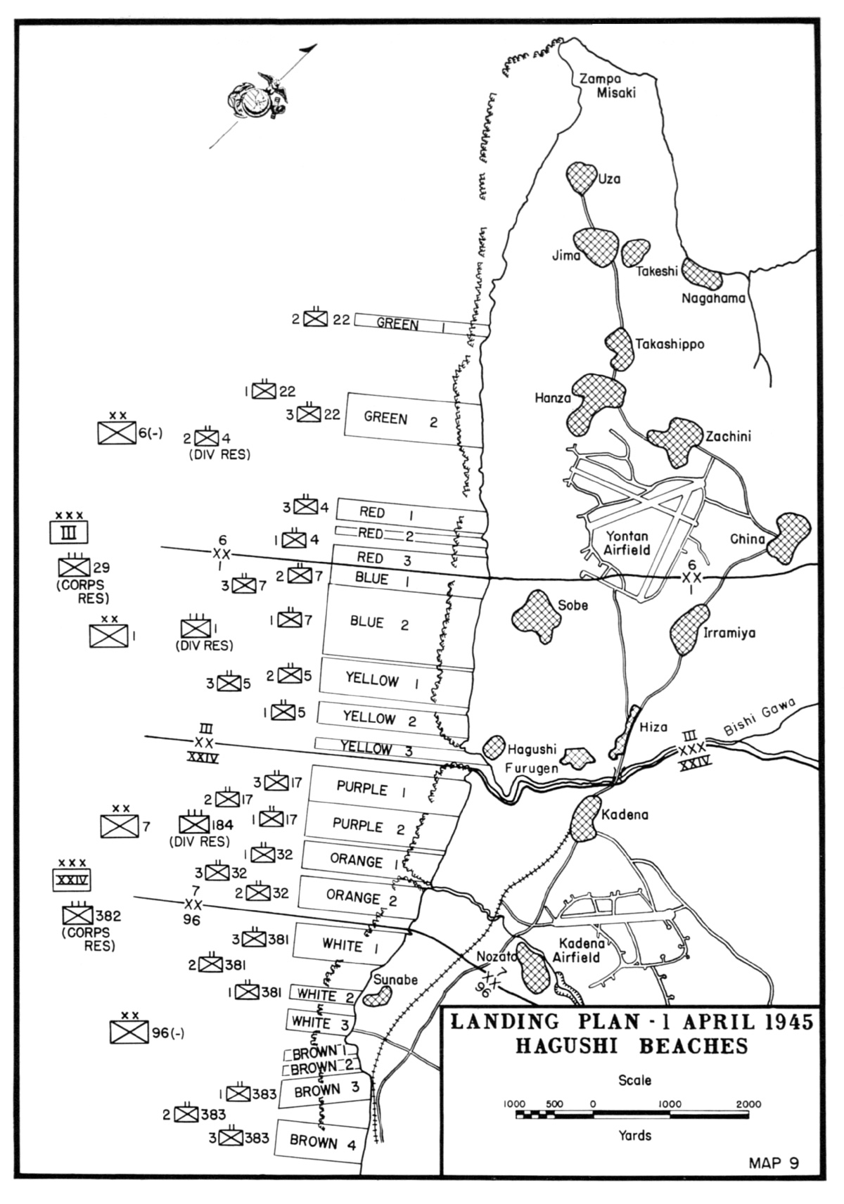 Map shows location of the Hagushi landing beaches (Green, Red, Blue, Yellow, Purple, Orange, White and Brown) on Okinawa 1 April 1945